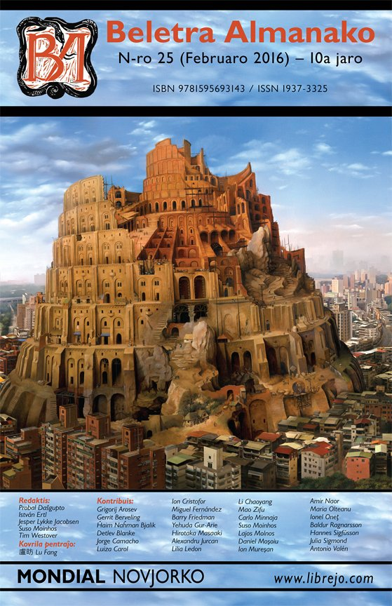 Cover of the 25th issue of february 2016 for the periodic “Beletra Almanako”, published by Mondial